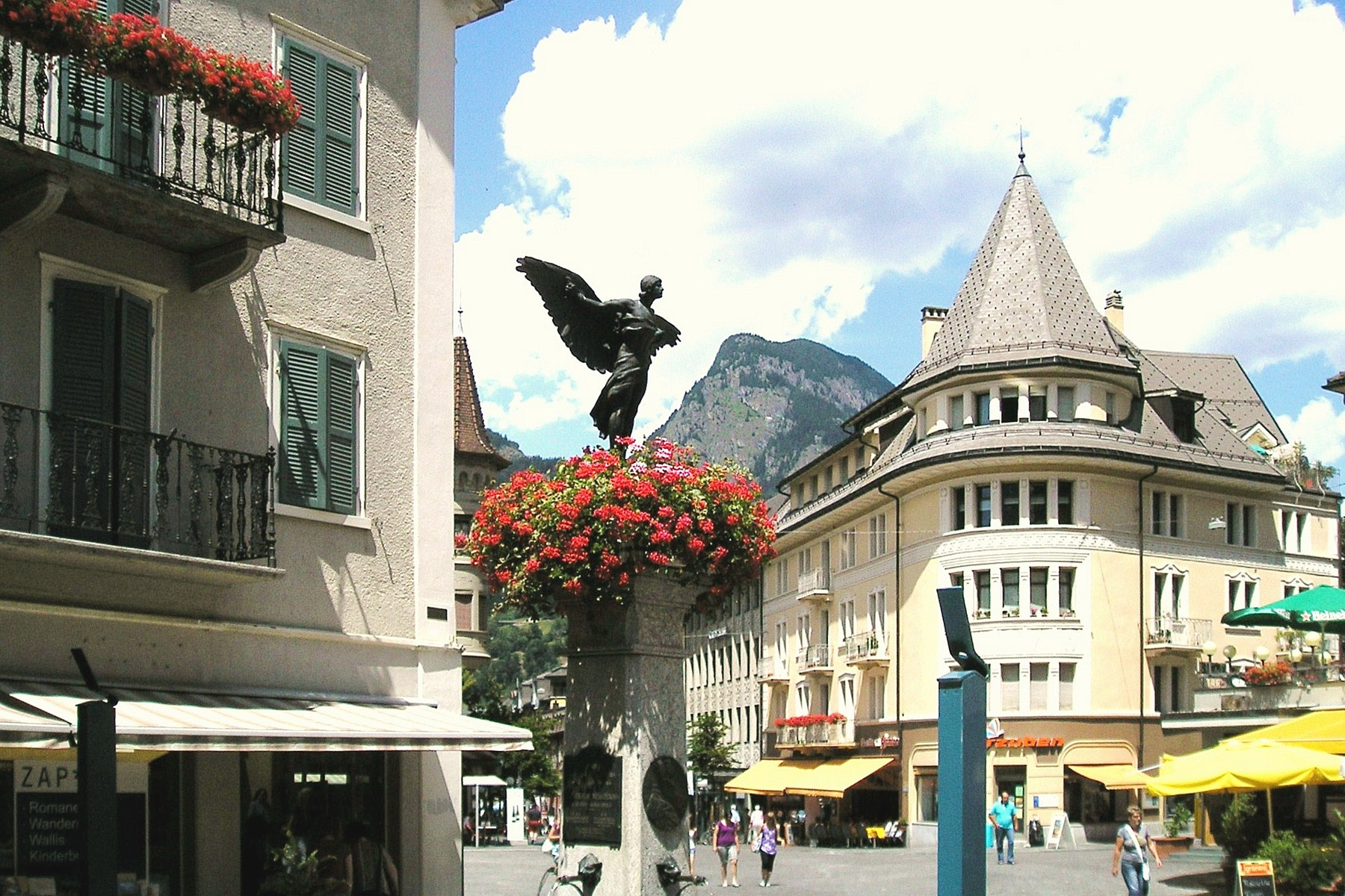 Centre of the City Brig-Glis in Switzerland. Riederhorn in the background.